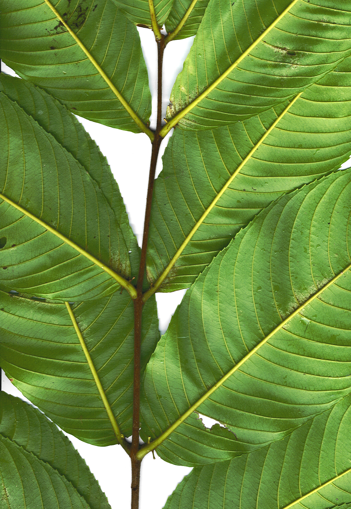 Terminalia myriocarpa (plant). Location: Maui, Puaa Kaa